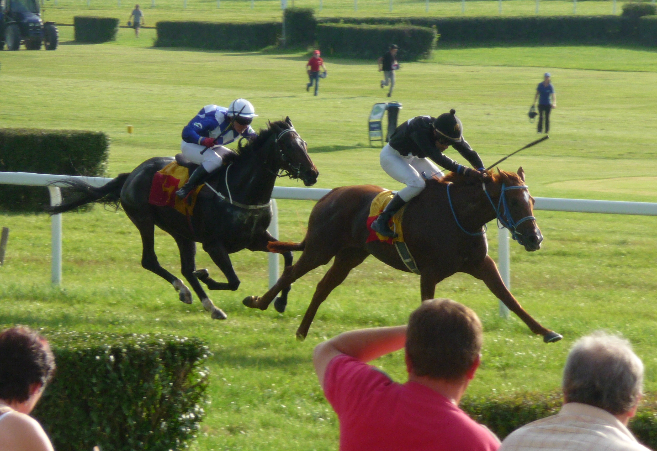 30th anniversary of horse racing in Slušovice -10 -5 -3 -2 ◄ ► +2 +3 +5 +10